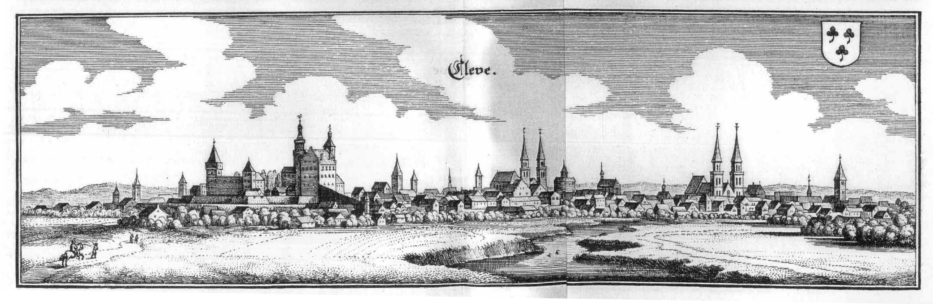 This is a scan of the historical document